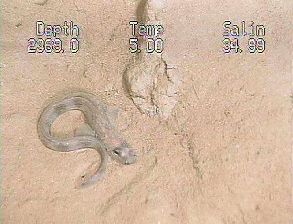 The wolf eelpout is a bottom dweller. Unlike most fish, they do not have a swim bladder. At this latitude, they are only found in deep water where the temperature range is similar to that of shallower, northern waters where they are commonly found.